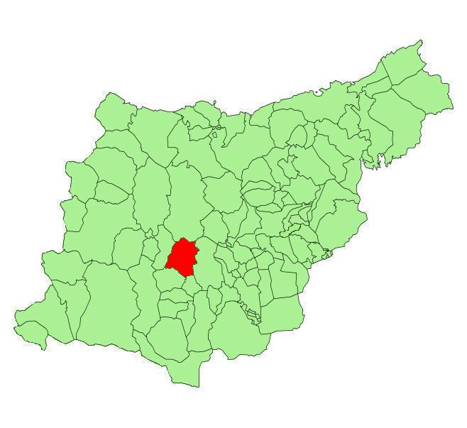 Ezkio-Itsaso municipality in the province of Guipuzcoa